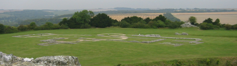 Old Sarum Cathedral